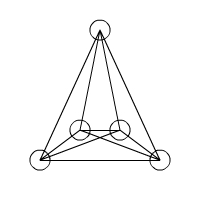 A complete graph with 5 vertices with 1 crossing. Author: Robin Weezepoel